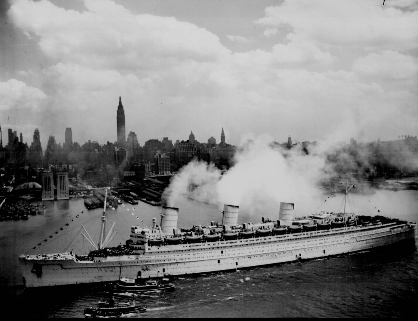 A black and white picture of the British liner RMS Queen Mary